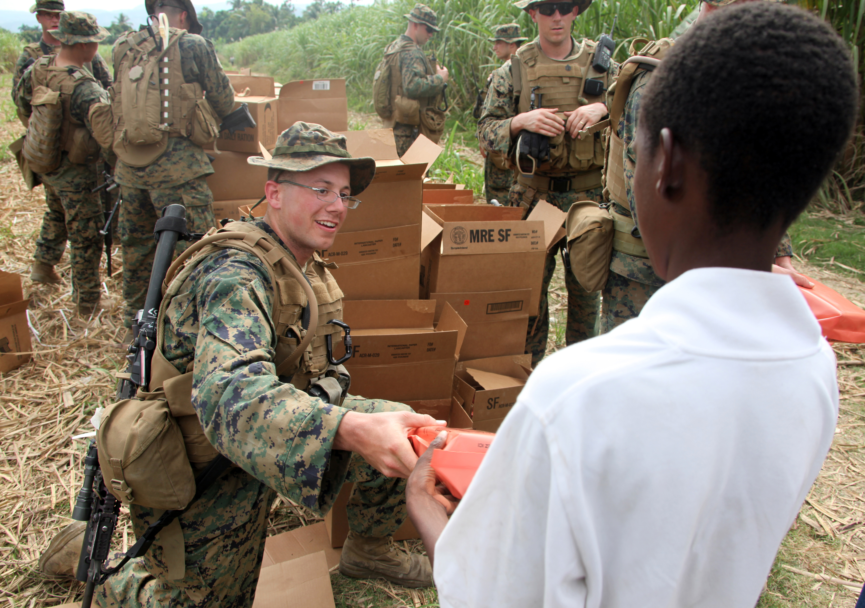 LEOGANE, Haiti (Jan. 26, 2010) A Marine assigned to the Battalion Landing Team, 3rd Battalion, 2nd Marine regiment, distributes humanitarian rations at an aid station near a landing zone in Leogane, Haiti. The Marines established a humanitarian aid receiving area at a missionary compound for Haitian earthquake victims. (U.S. Marine Corps photo by Cpl. Bobbie A. Curtis/Released)